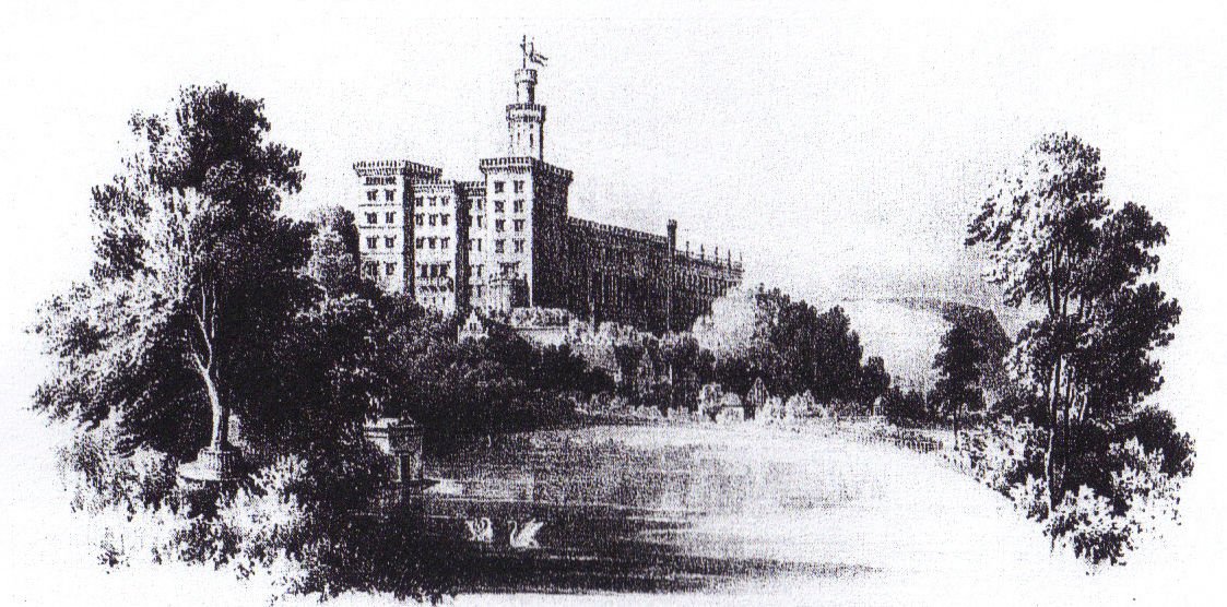 castle Sondershausen blueprint